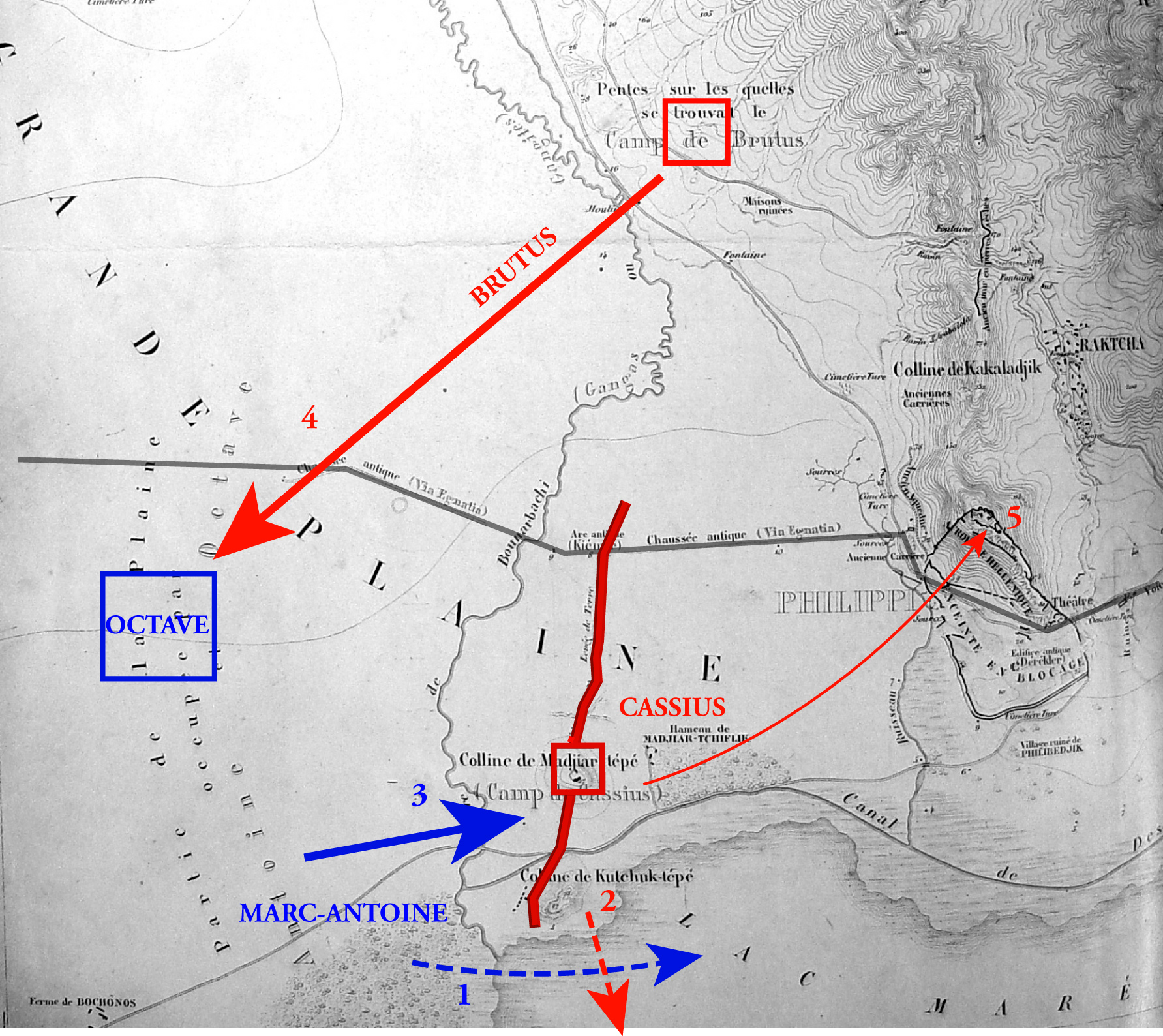 First battle of Philippi, september 42 BC. Movement and positions draught by Marsyas. Map scanned from L. Heuzey et H. Daumet, Mission archéologique de Macédoine, Paris, 1876.